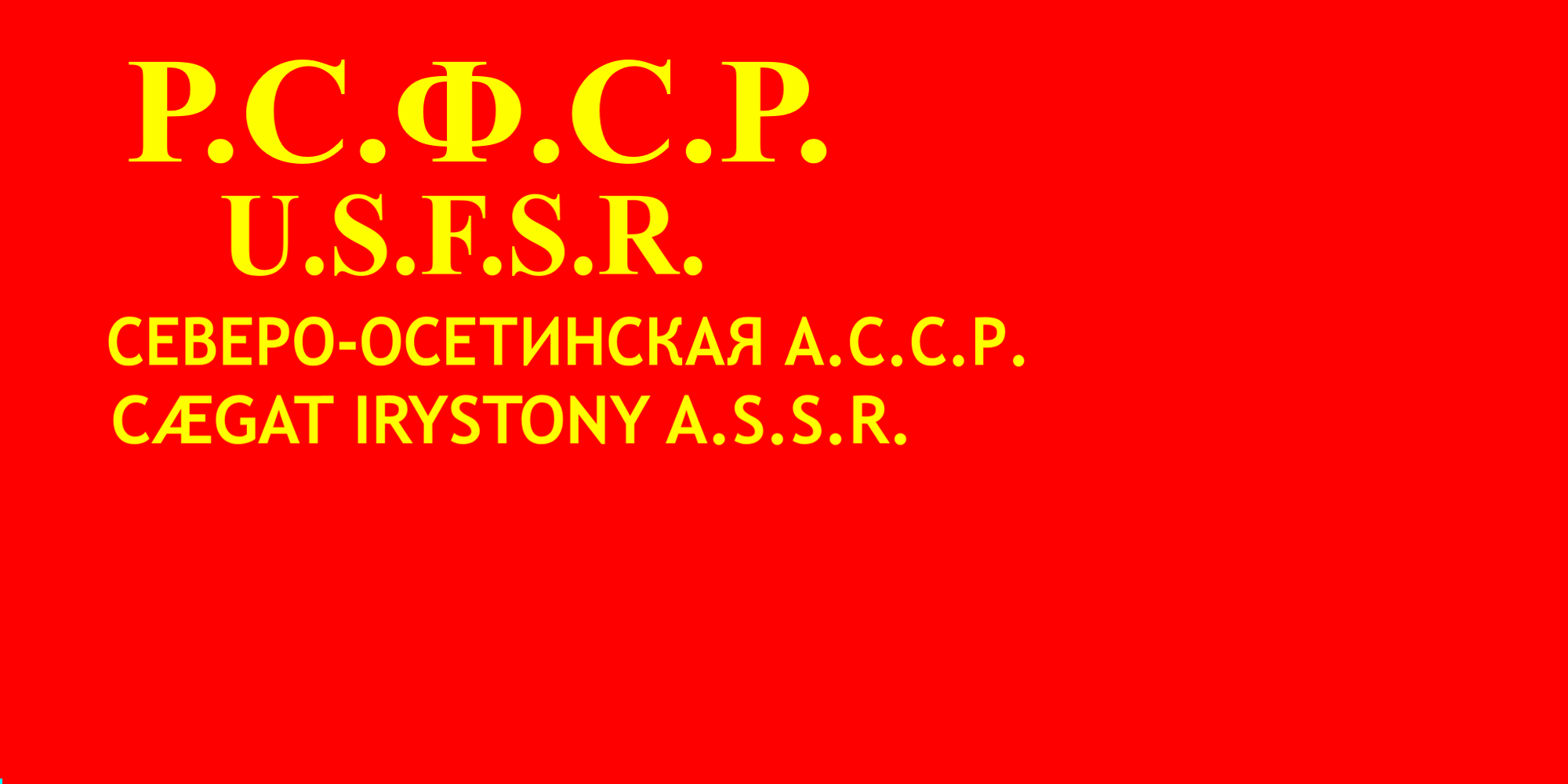 Flag of North-Ossetian ASSR (1937-1938)